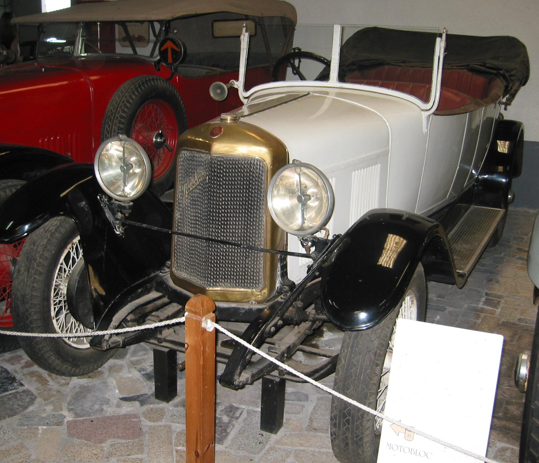 Motobloc 1925 (Country of origin: France)